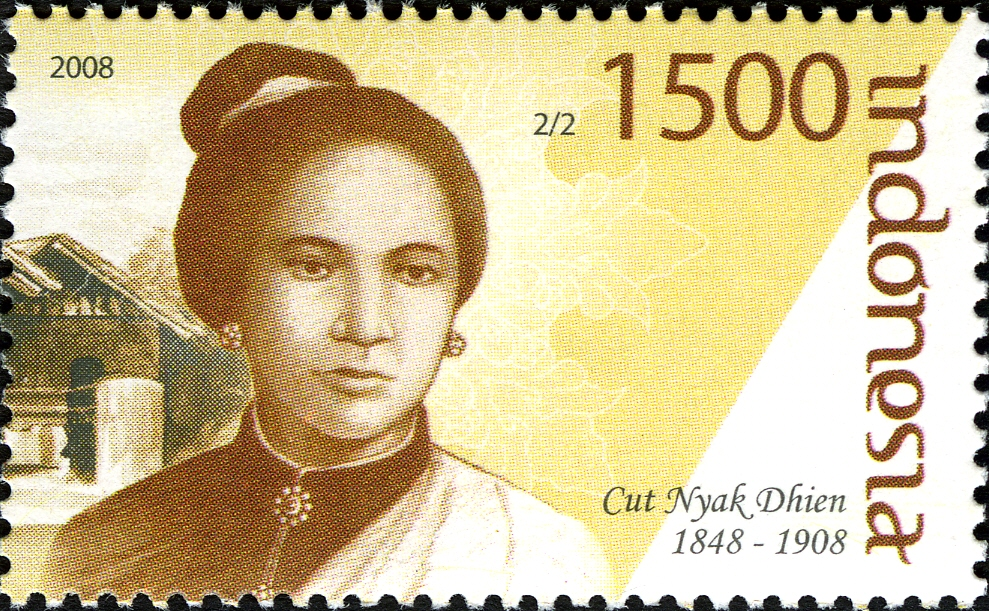 Stamps of Indonesia